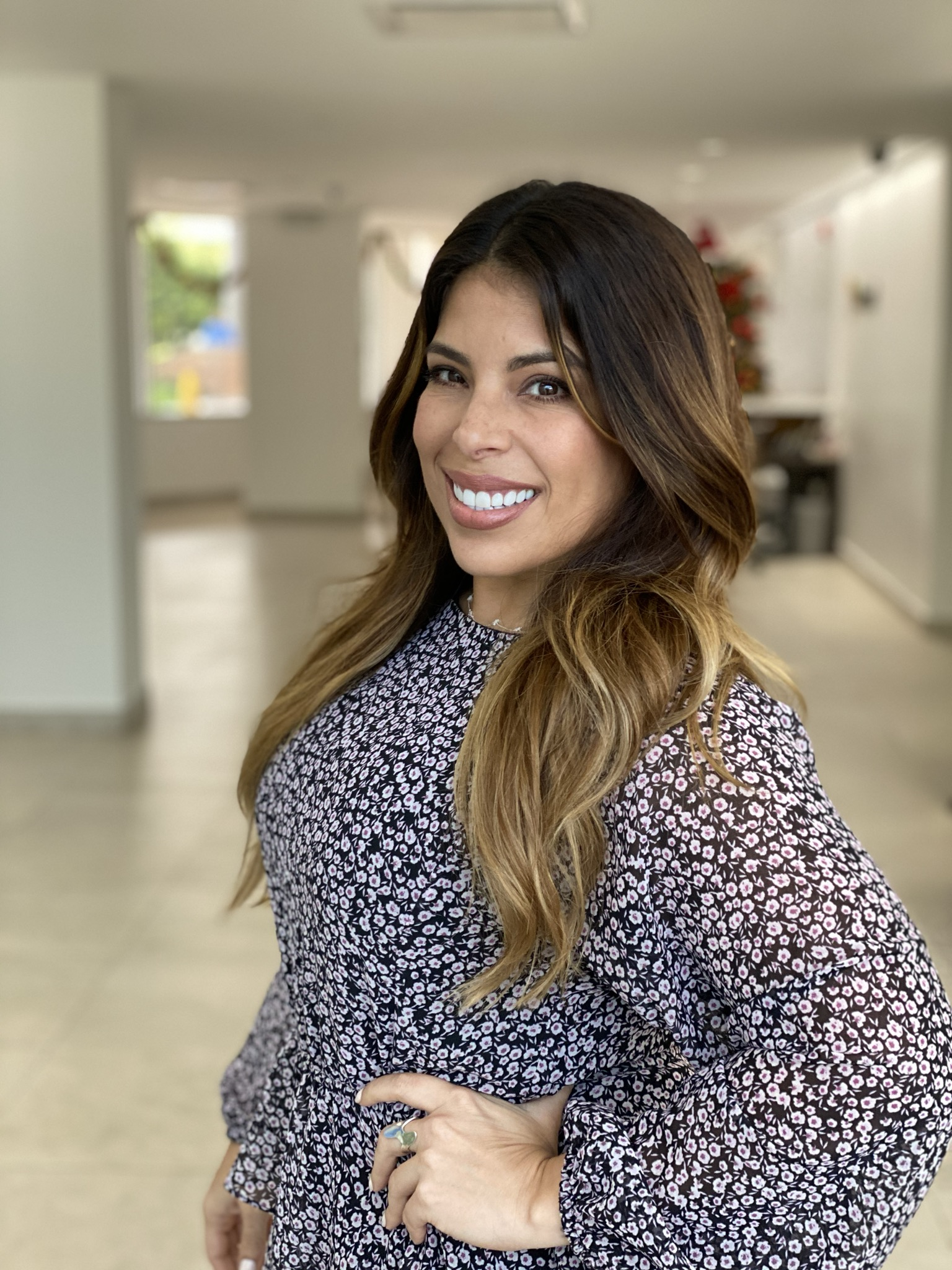 Puerto Rican singer, songwriter, actress and reality TV star